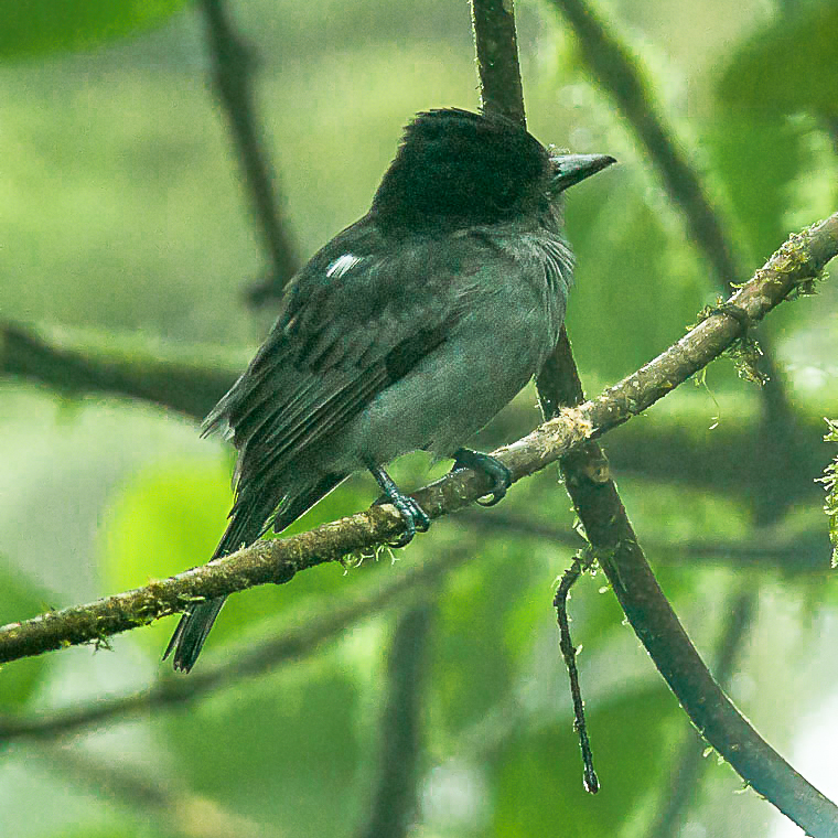 One-colored becard, male Pachyramphus homochrous) - South Ecuador_S4E8722